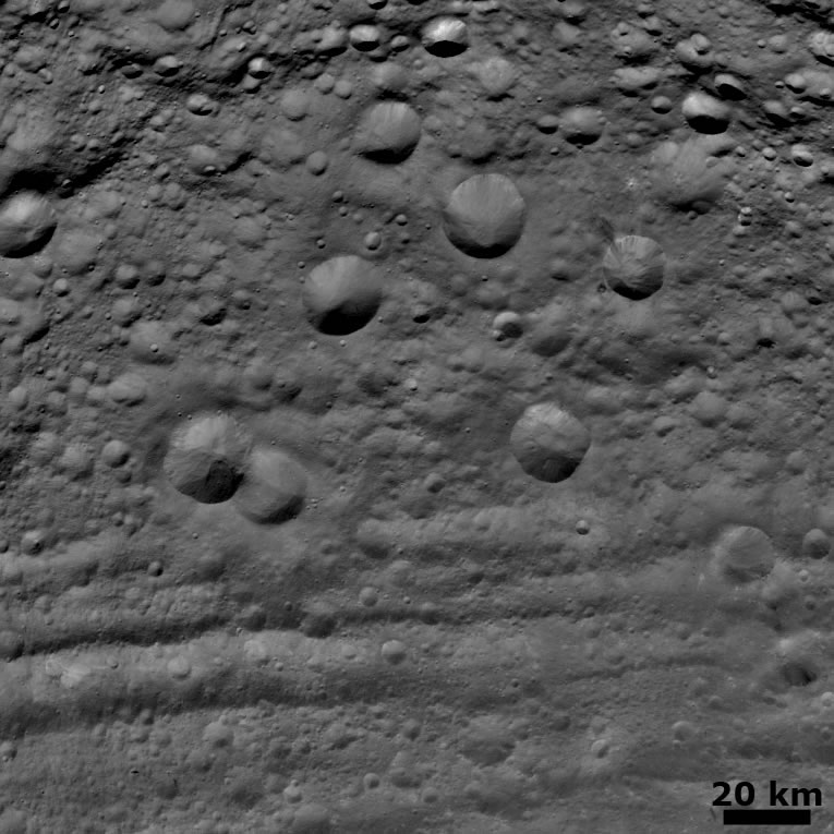 An image of craters in various states of degradation on Vesta, taken by Dawn on August 6, 2011. It has a resolution of about 260 meters per pixel.